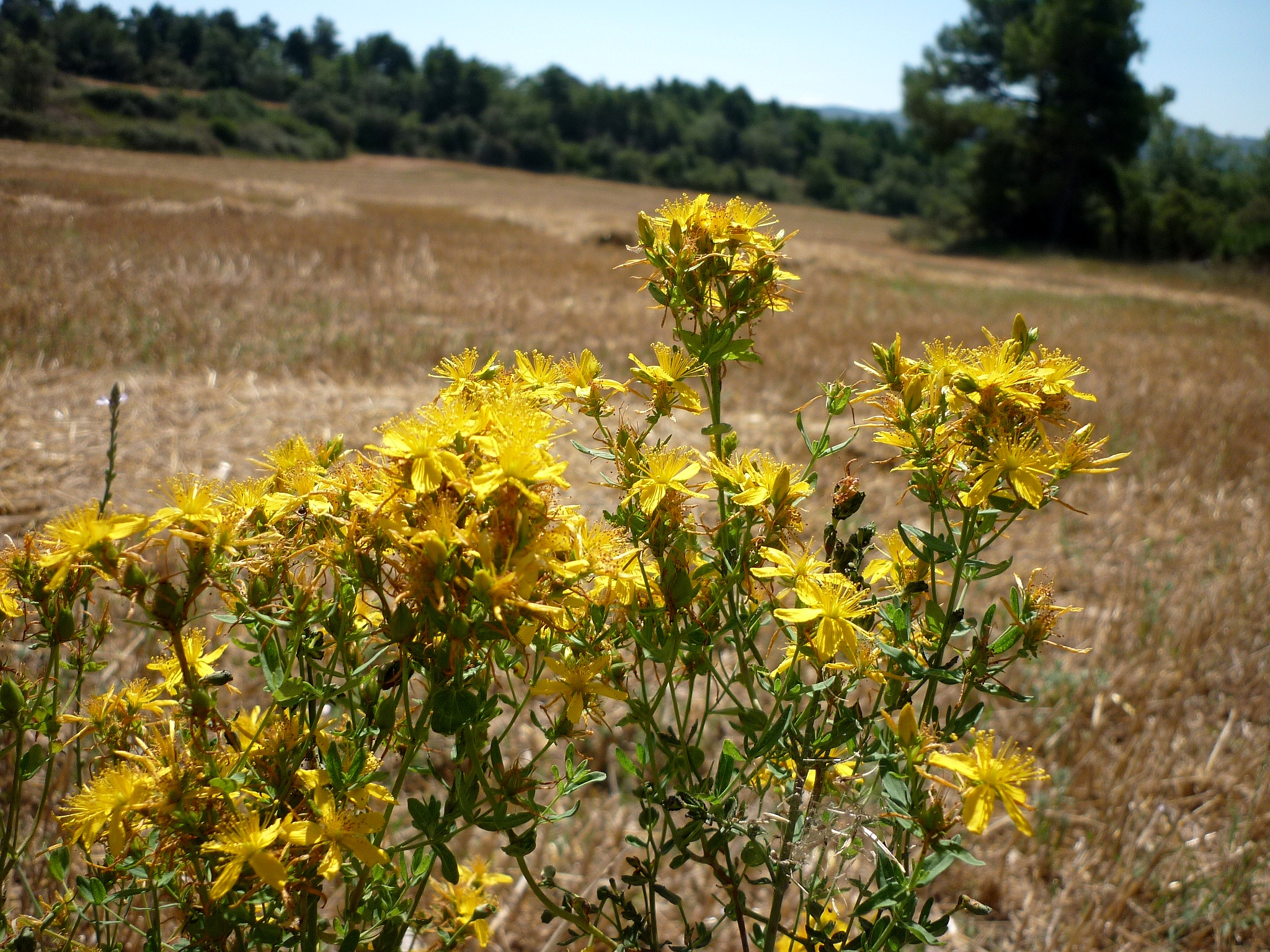 Hypericum perforatum . In Pinós (Solsonès - Catalunya). To 700 m. altitude